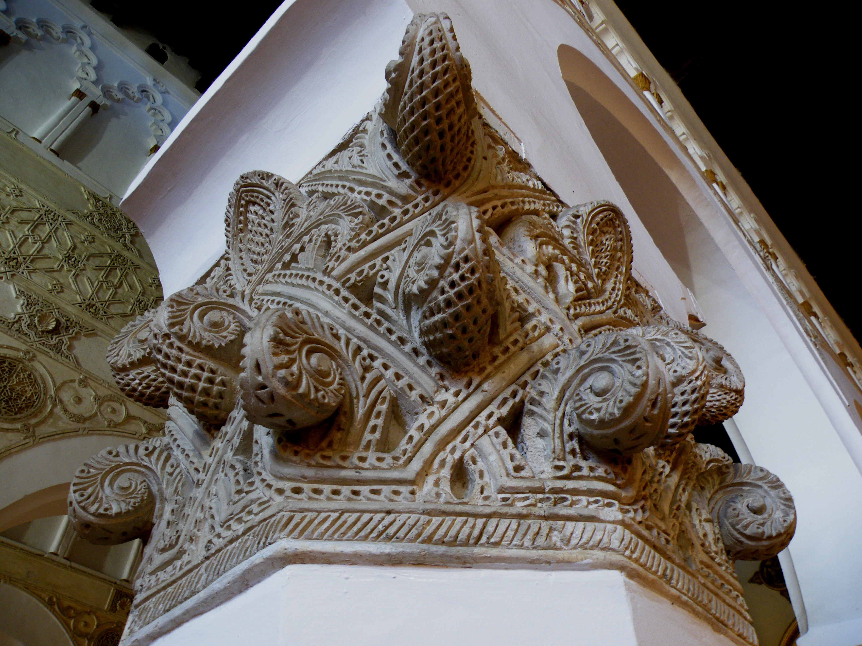 Decorative pillars